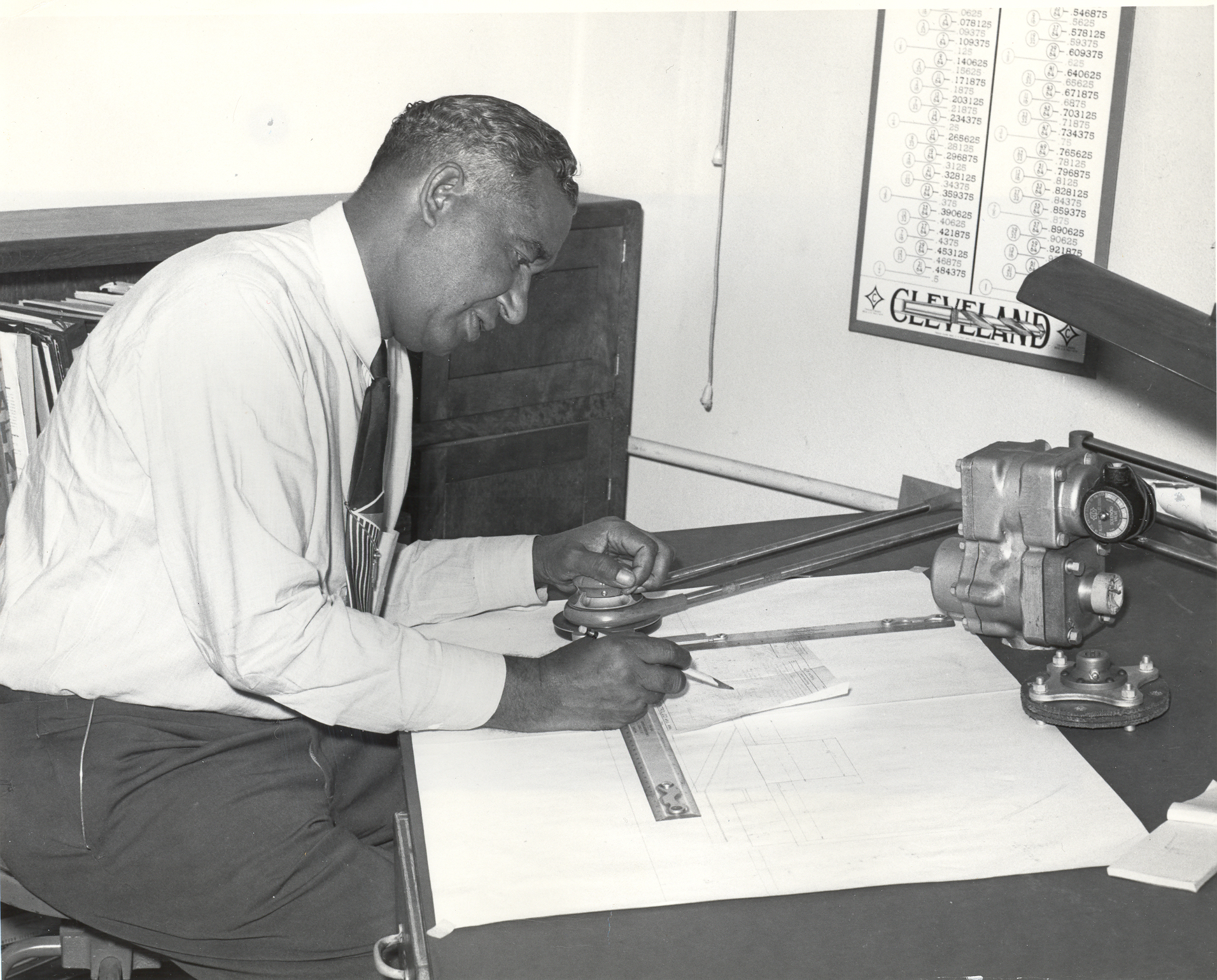 Fred McKinley Jones - drafting desk Fred Jones, a prolific inventor, revolutionized the transportation of food and changed the way we eat.